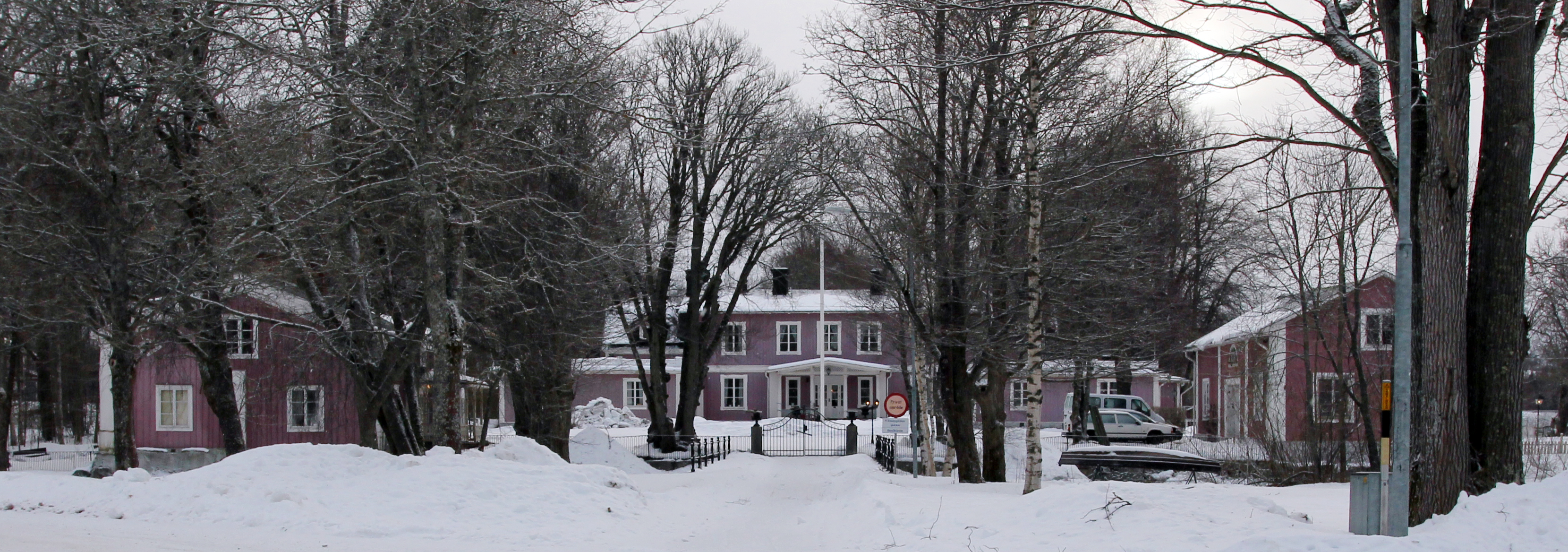 Mansion of Vikmanshyttan, Hedemora Municipality, Sweden. Former squire residence for Wikmanshytte Bruk, now a nursing home